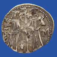 Bulgaria, Second Empire. Ivan Aleksandar, with Mihail Asen IV. 1331–1371. For a more detailed description: see other version